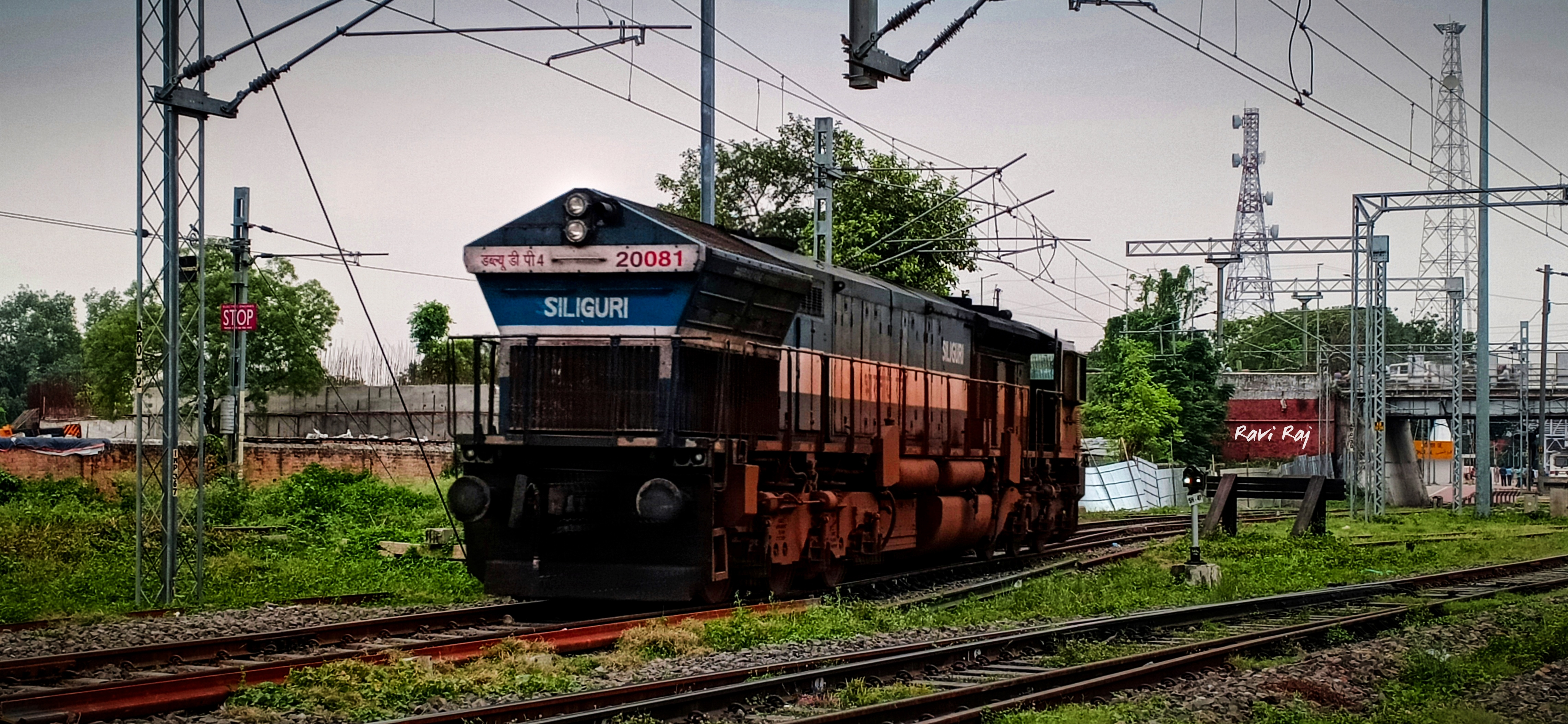 Siliguri diesel locomotive shed based EMD 20081 of Indian railways. Location - Katihar, Bihar (India)